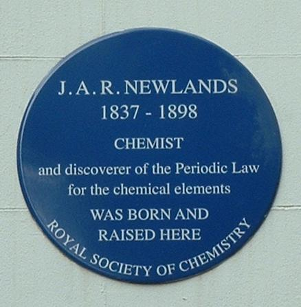 Photographed by me (Gaius Cornelius).